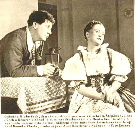 Vlasta Jelínková, Czech actress, 1937